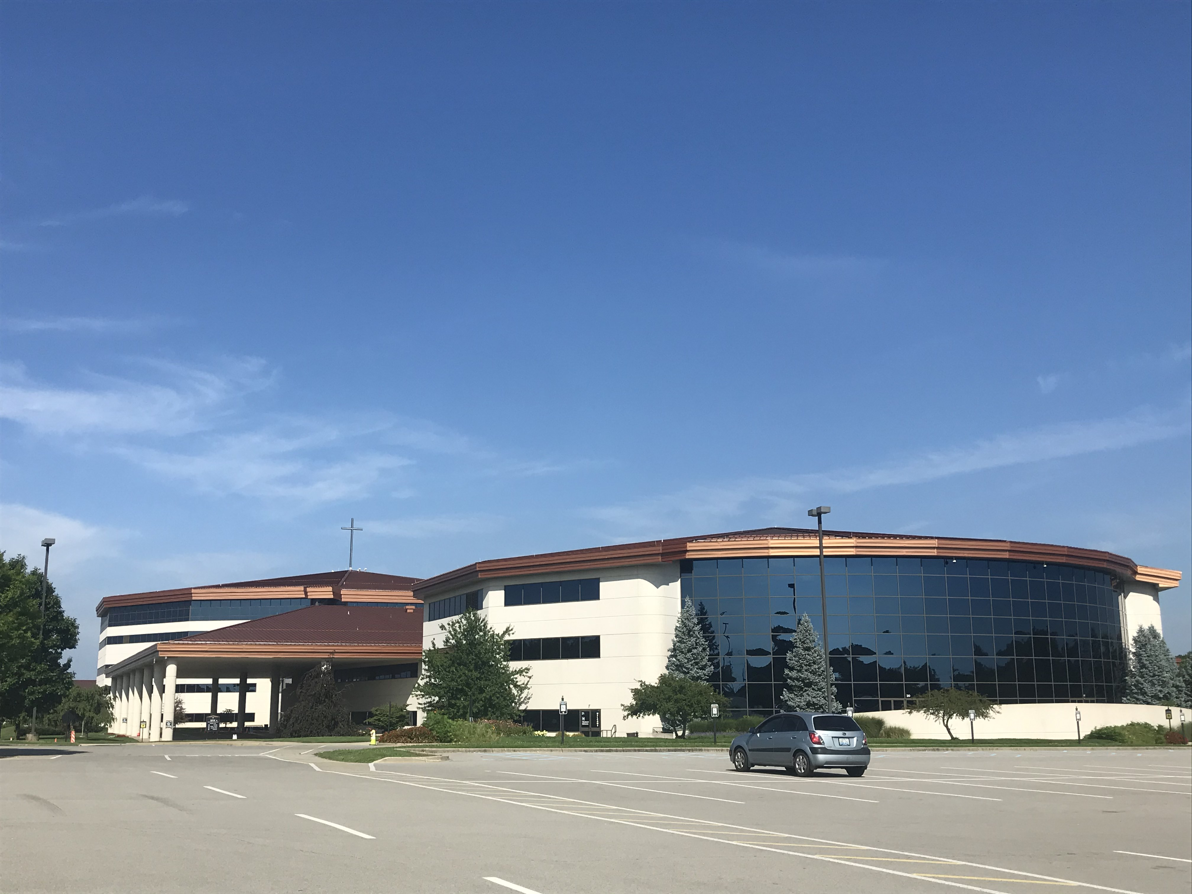 July 2020